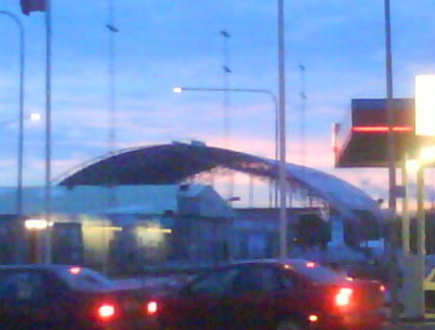 Arena Vänersborg under construction.